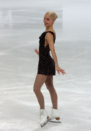 Kiira Korpi at the 2009 European Championships.